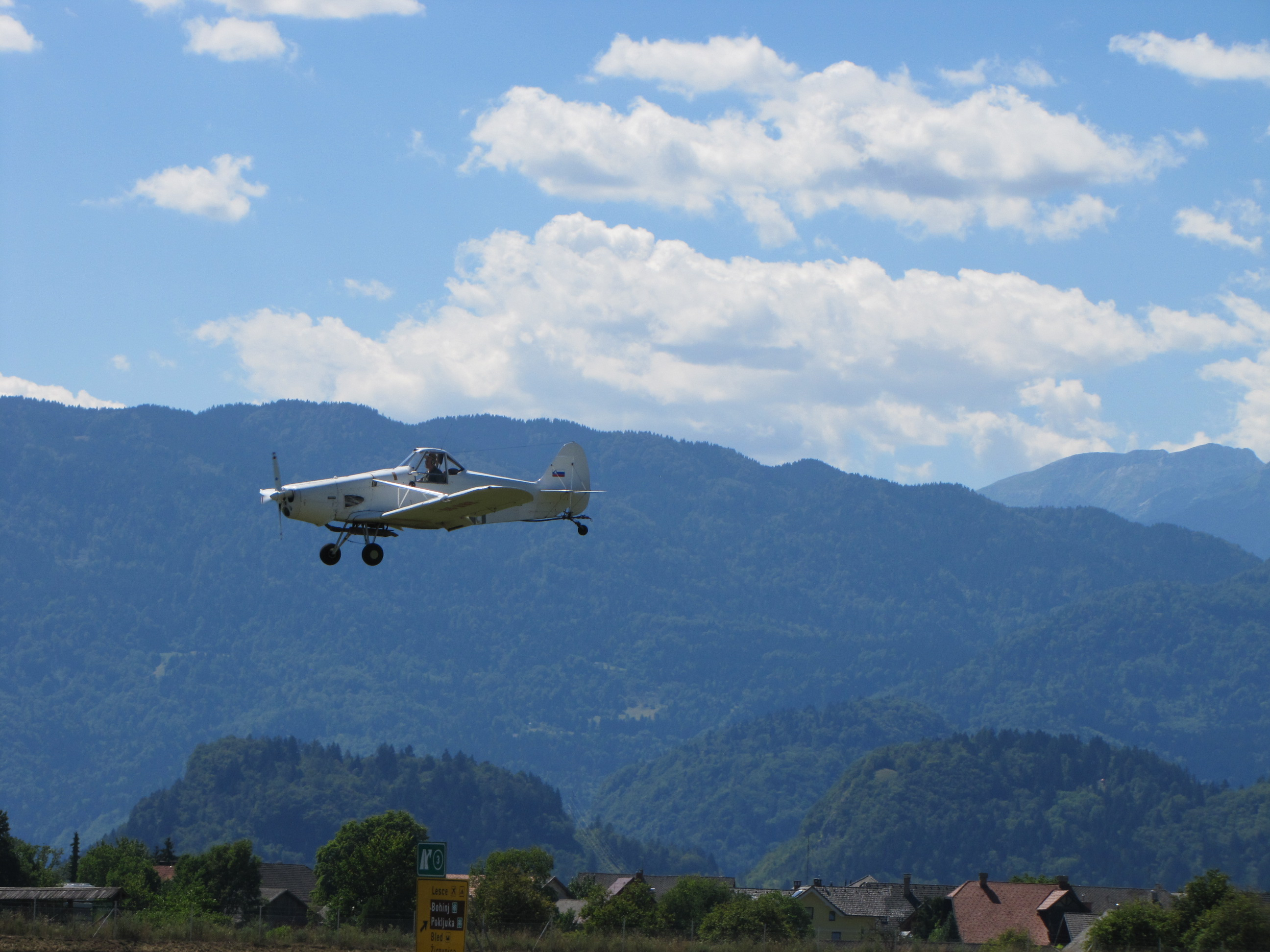 Airport Lesce, private glider tug Piper PA-25-235 Pawnee (S5-DBR) during landing after finished aerotowing.